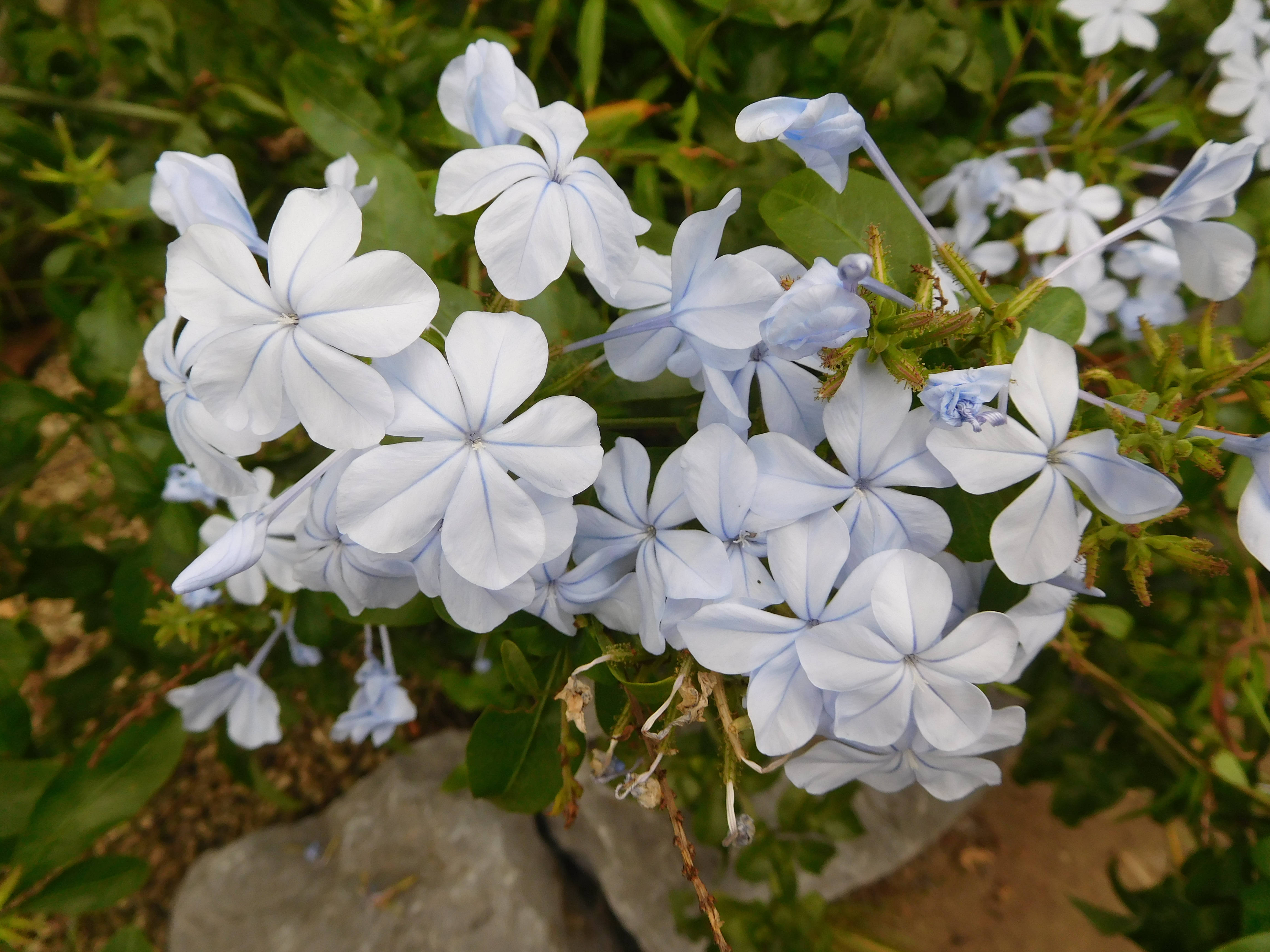 Flowers of cape plumbago in Tsukuba Botanical Garden, Tsukuba, Ibaraki, Japan.